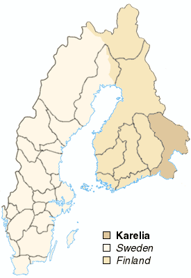 Map Historical Provinces of Finland, Karelia © Mic, 2003 Released under the GNU Free Documentation License See also: Provinces of Sweden